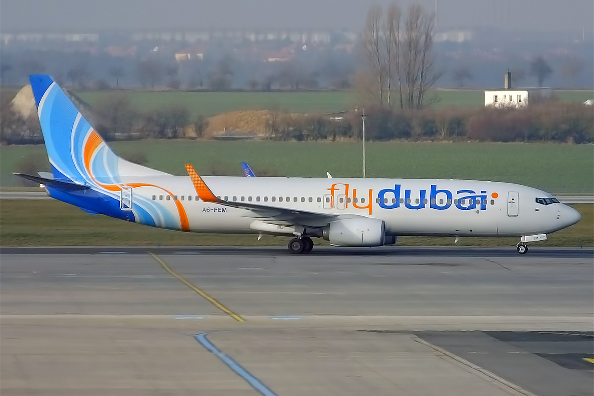 FlyDubai, A6-FEM, Boeing 737-8KN